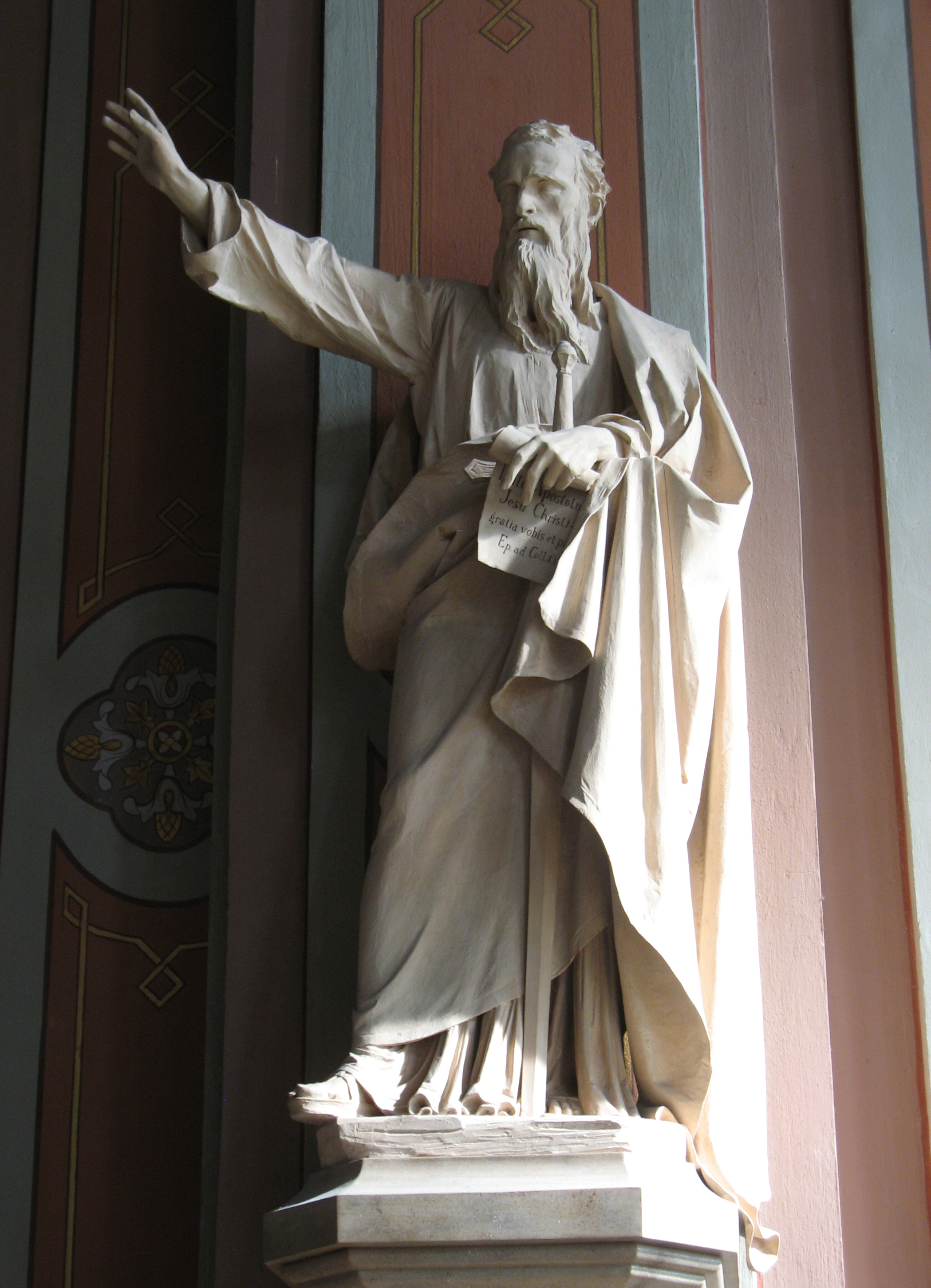 From the parish church of St. Ulrich in Gröden - Ortisei Val Gardena - Sculptor Ludwig Moroder